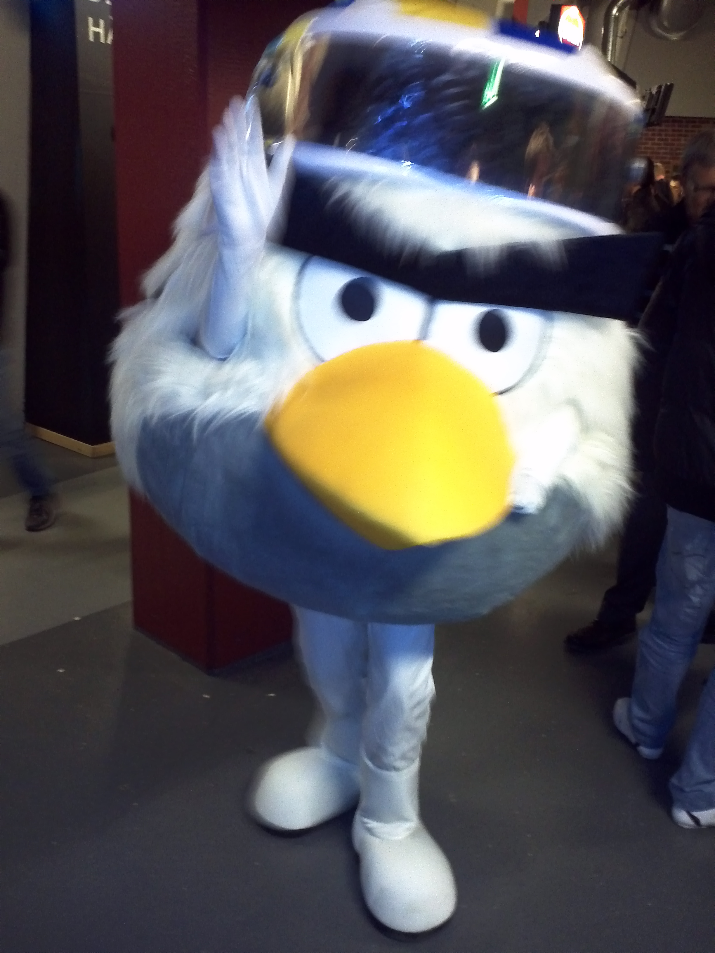 Hockey Bird, mascot for IIHF World Championship 2012.